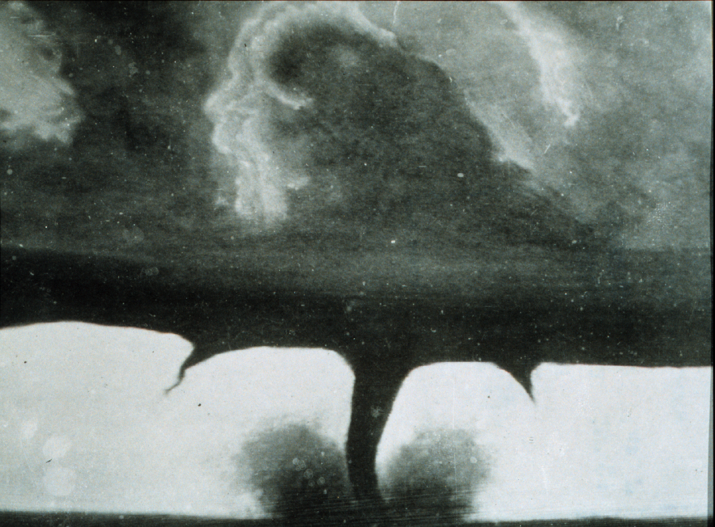 Oldest known photograph of a tornado in 1884. (Note that there is some dispute as to whether this is in fact the oldest known photograph, see "Early Tornado Photographs" at This was taken 22 miles southwest of Howard, South Dakota on August 28, 1884. "